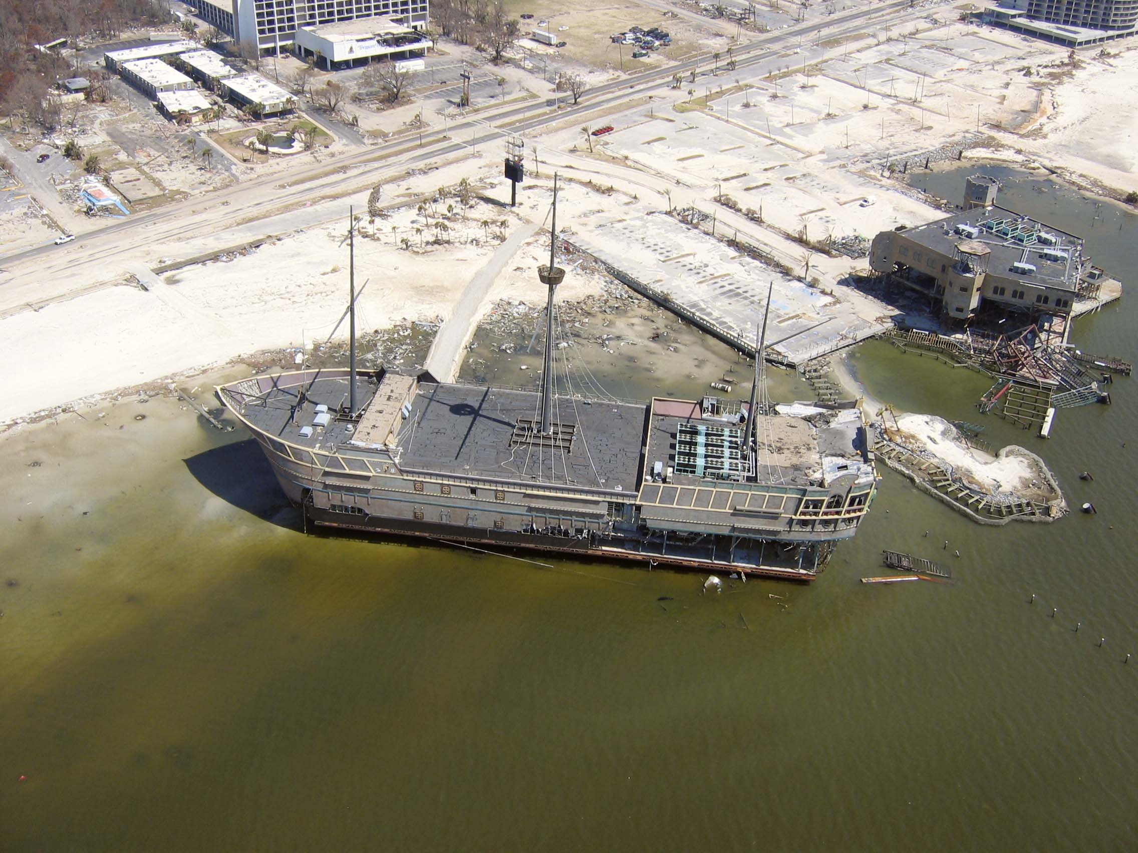 Helicopter view of Biloxi, Mississippi after Hurricane Katrina. Treasure Bay Casino Ship pulled out of its permanent moorings then run aground.